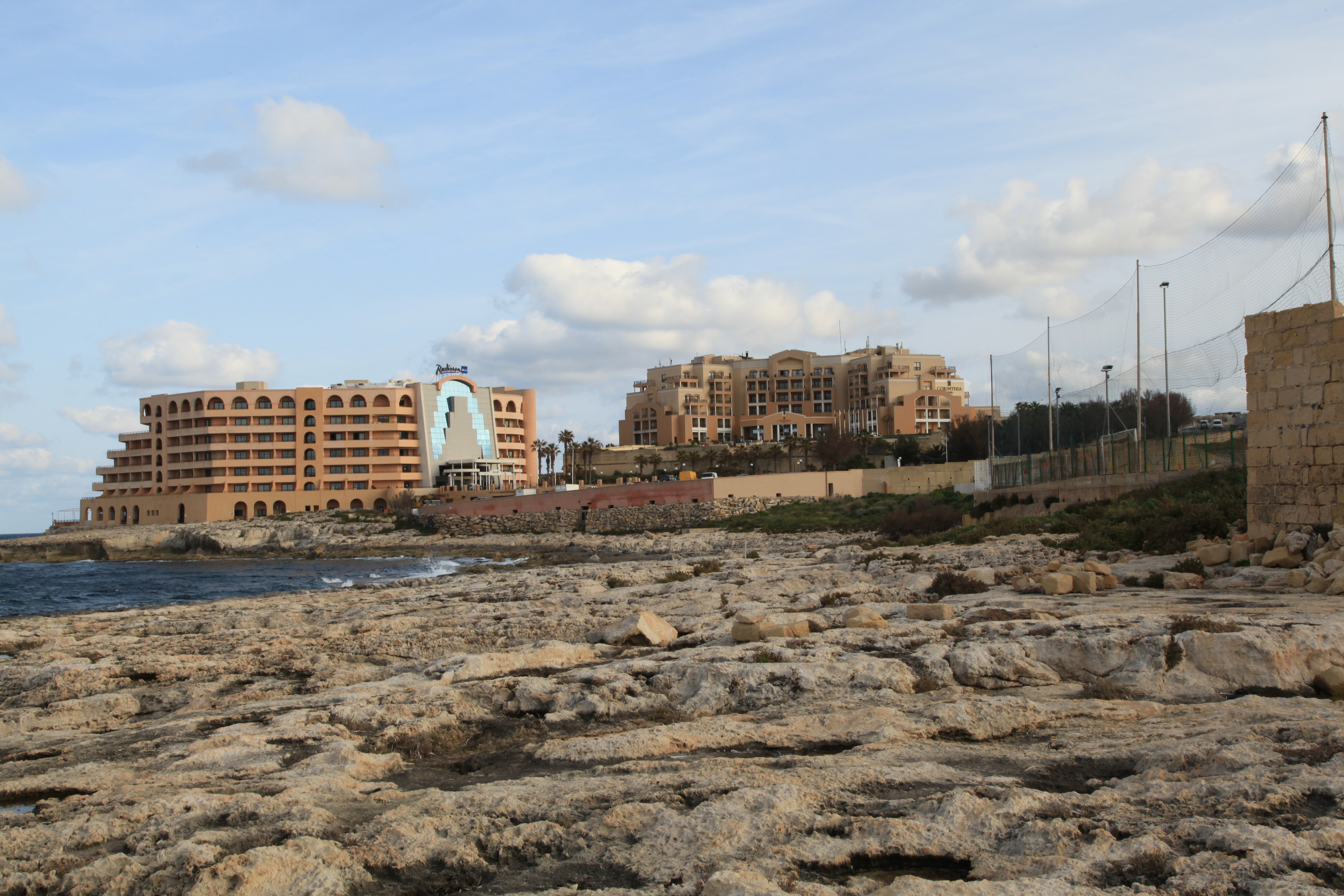 Coast at Triq Pietro D'Armenia in Pembroke, Malta with hotels in St. Julian's in background